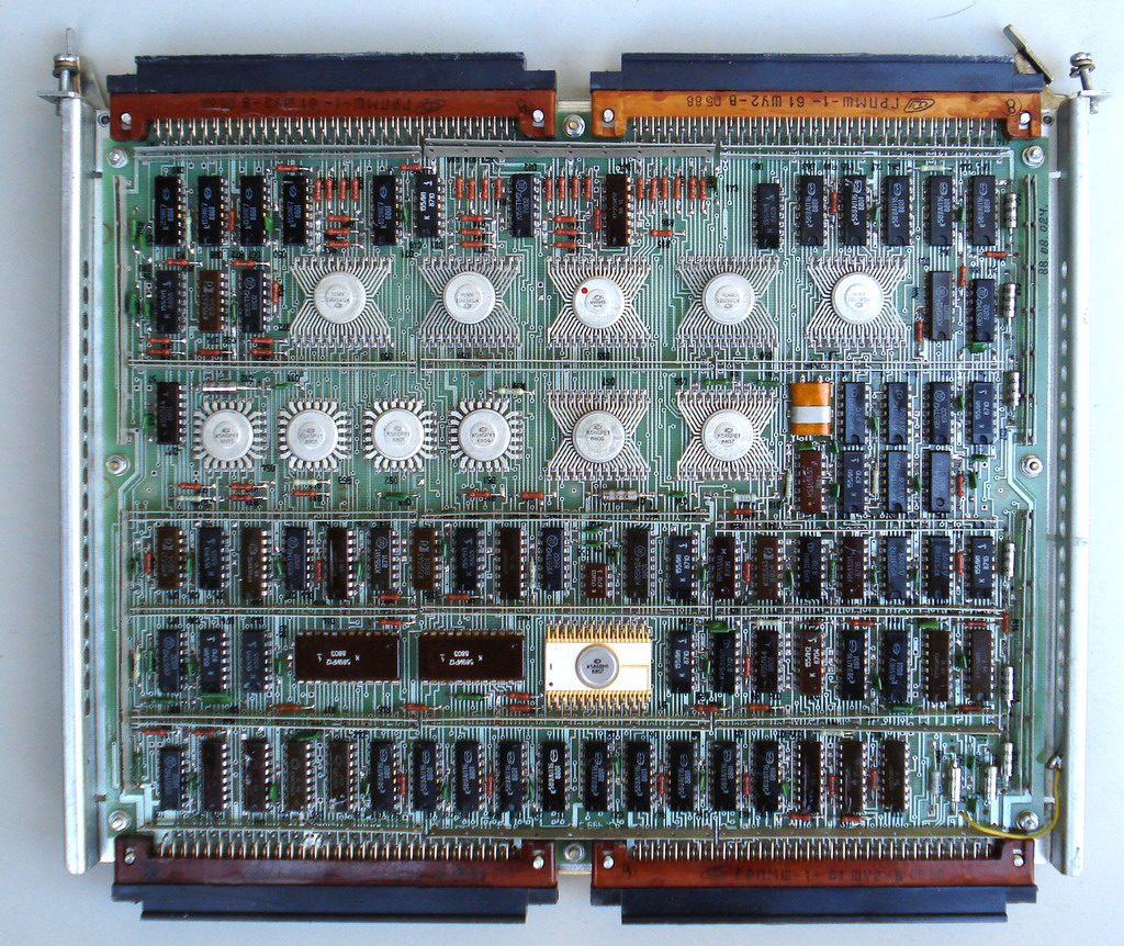 Electronica C5-21